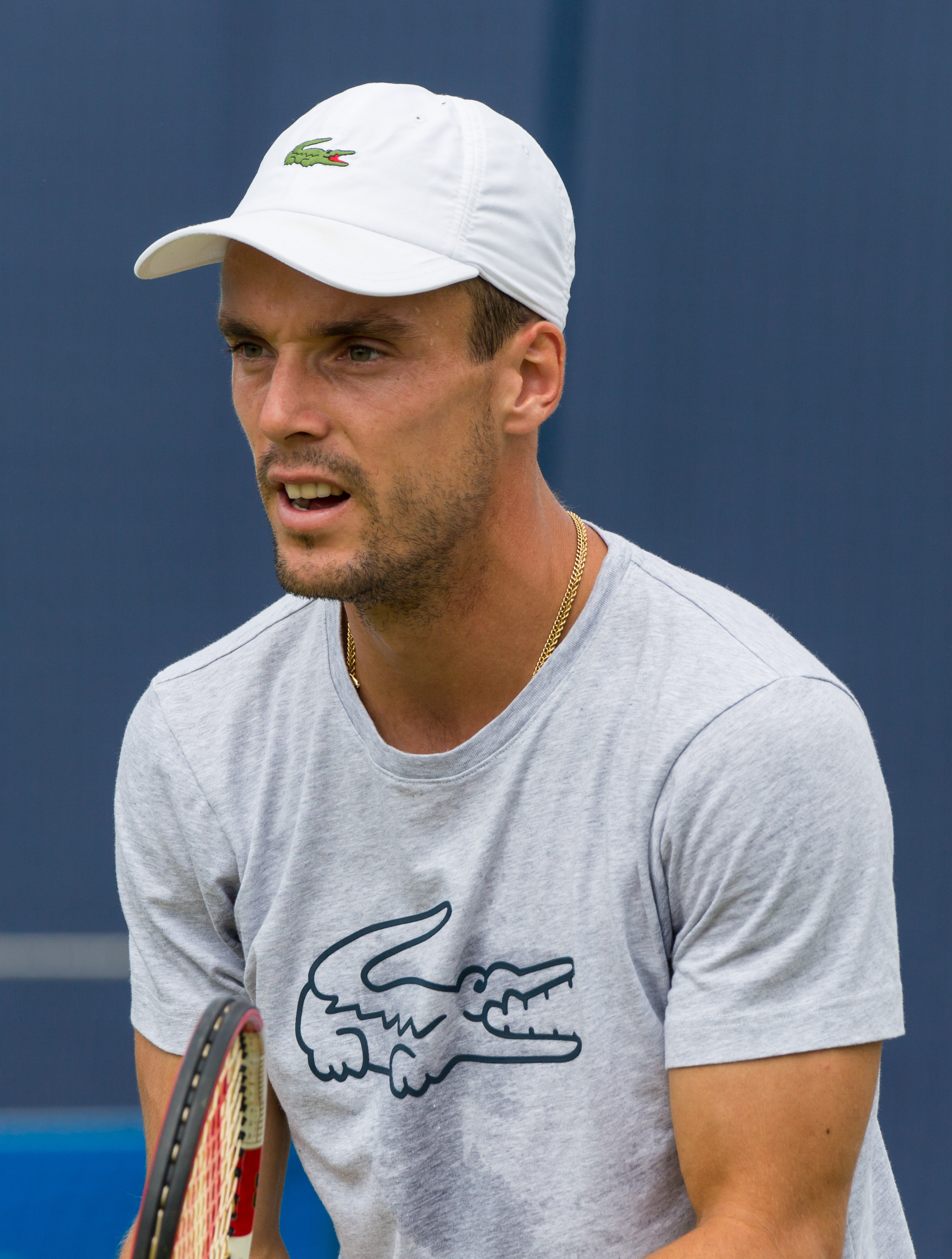 Roberto Bautista-Agut during practice at the Queens Club Aegon Championships in London, England.